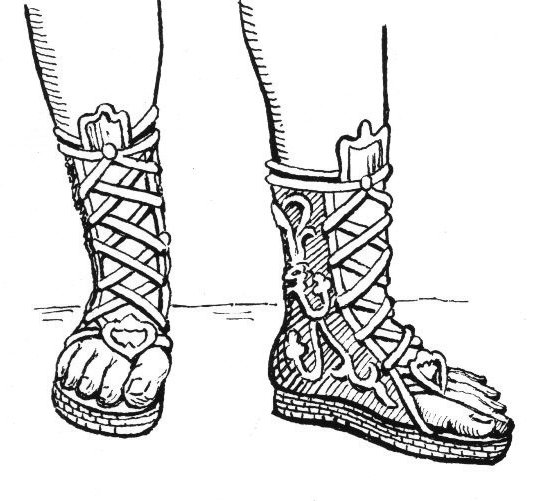 Buskins (cothurns) line art drawing